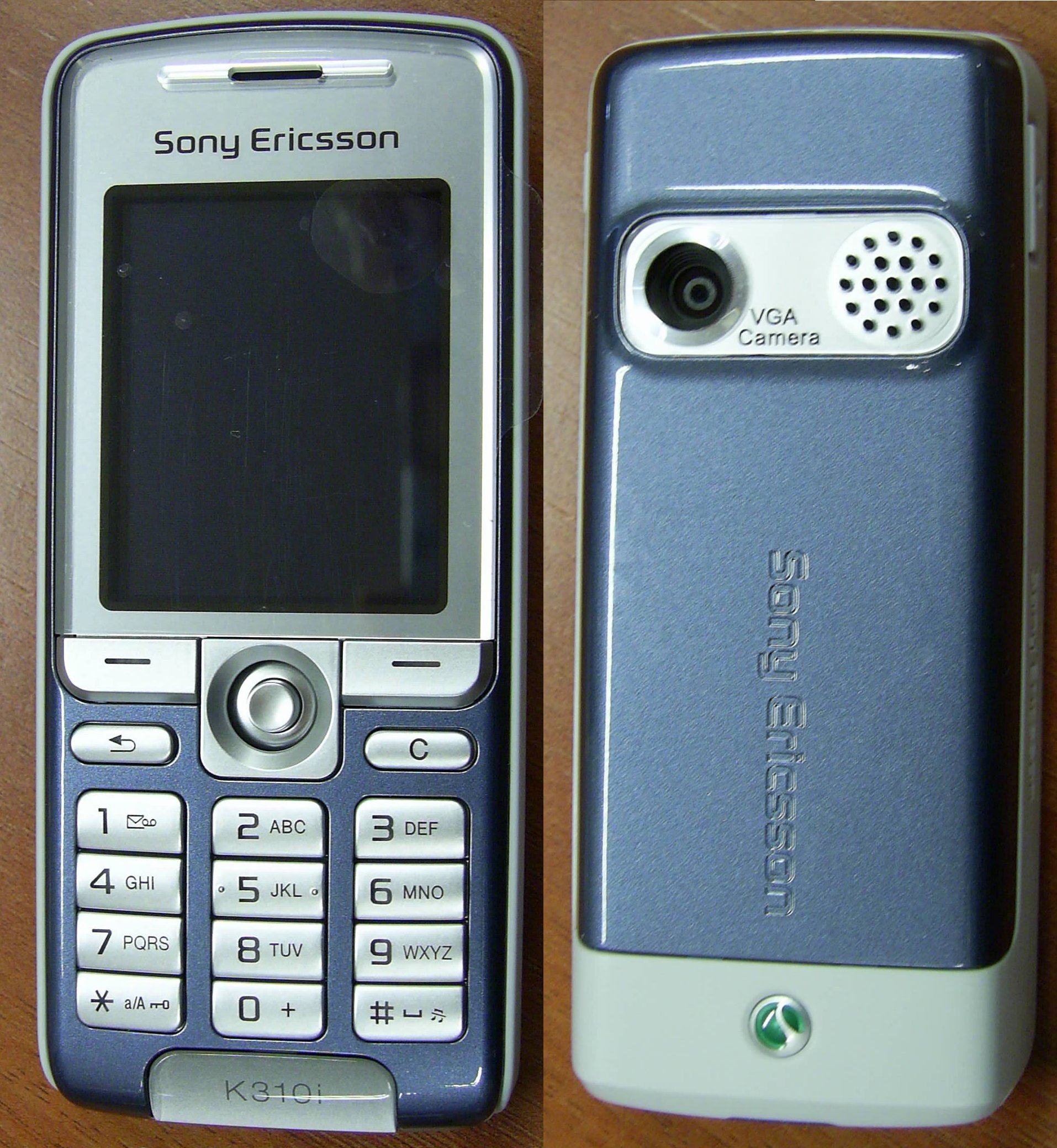 Teléfono móvil Sony Ericsson K310i